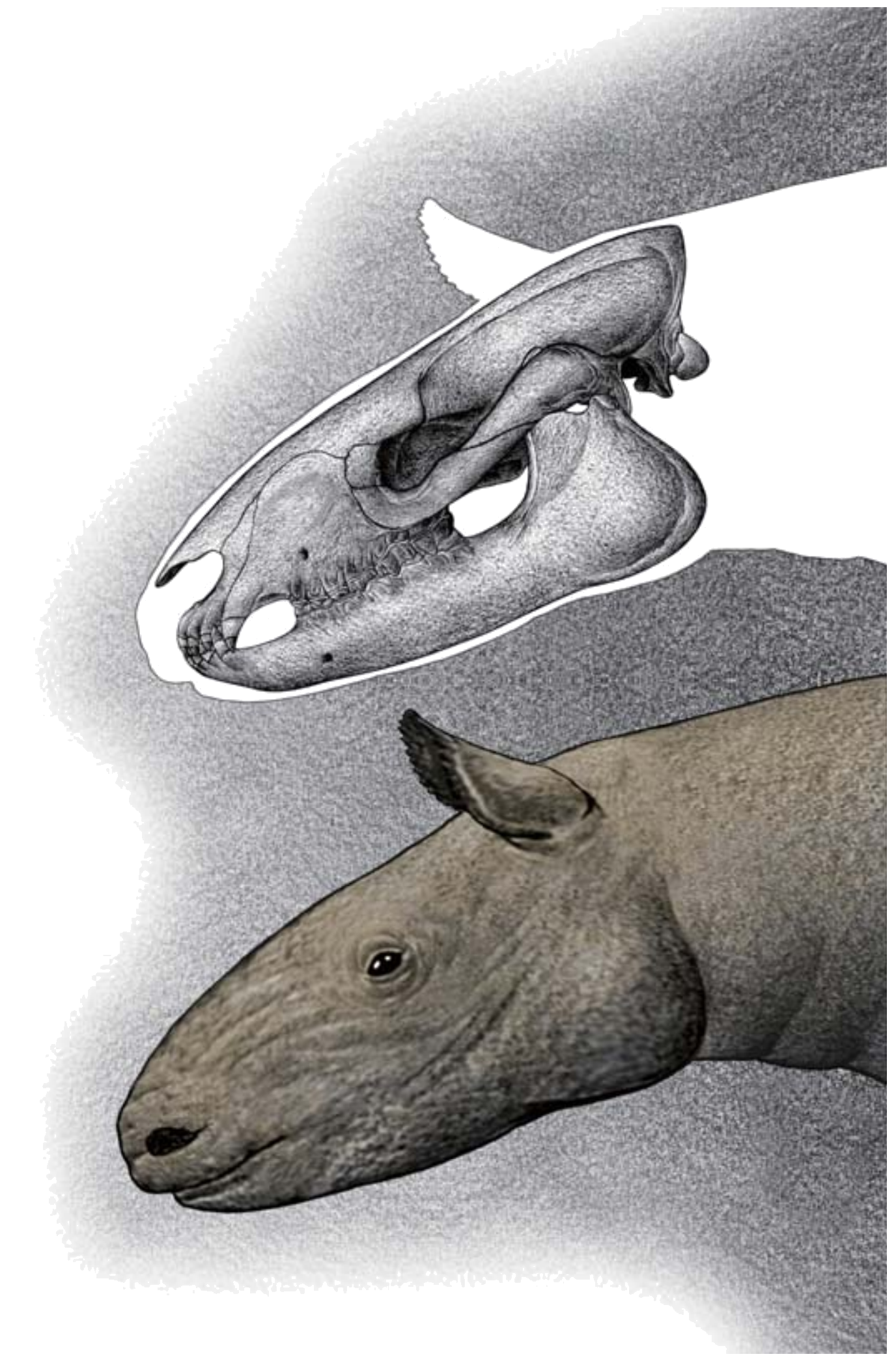 Pappaceras, life restoration